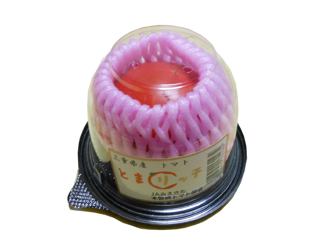 This is a tomato with high sugar content produced in Kisosaki, Mie, Japan. Its brand name is "tomarich".